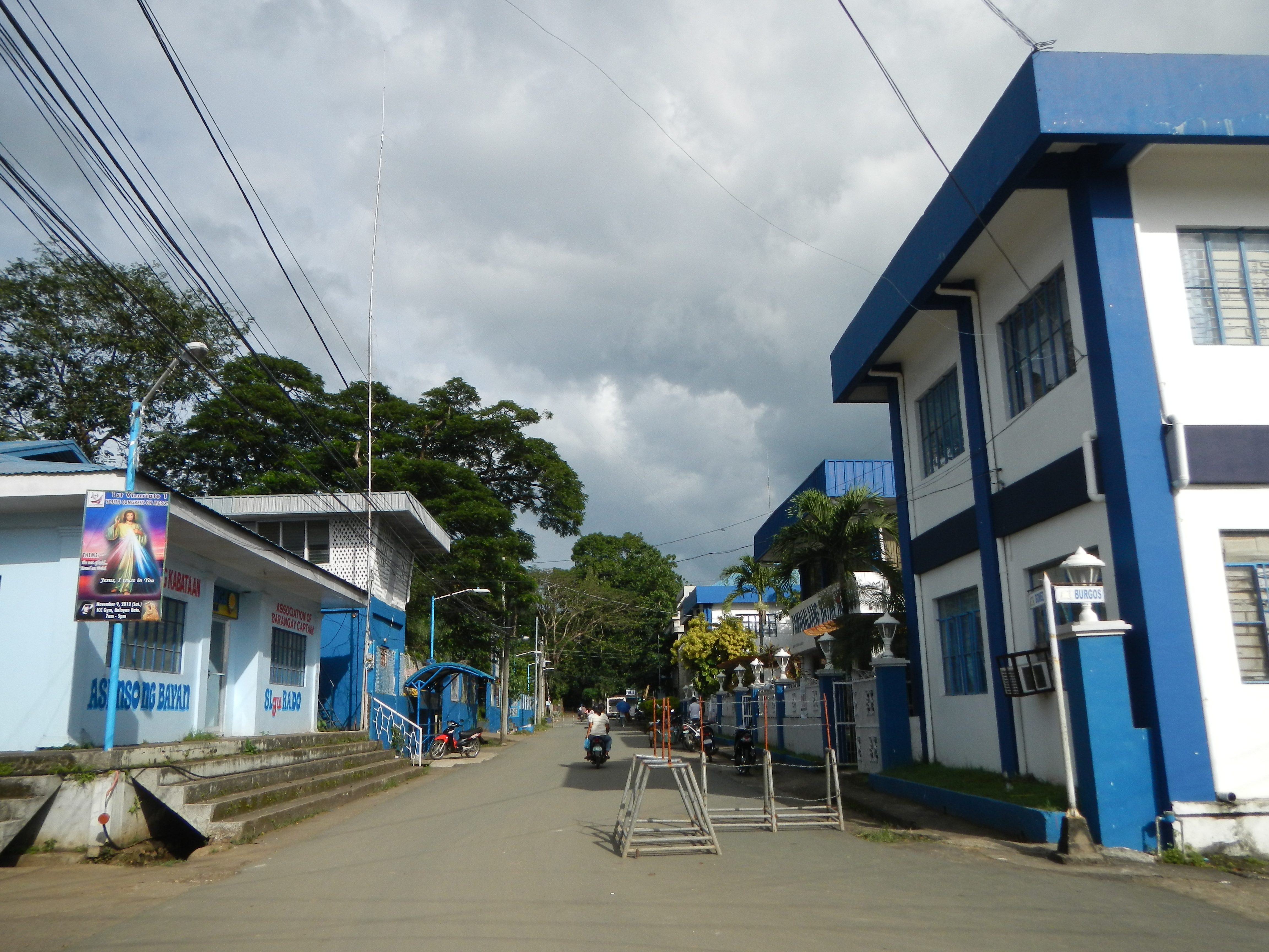 Upload Wizard photo-views of the - scenic Town Proper, Town hall complex, Church, downtown, Centro, Poblacion, and blue mountains, green hills, and royal blue sky, Tuy Water District Tank, from the bell tower full of Philippine bats and heritage ancient bells of the - Saint Vincent Ferrer Parish Church of Tuy, Batangas, Vicariate I: Vicariate of Saint Francis Xavier, [1] belongs to the Roman Catholic Archbishop of Lipa[2] [3] Roman Catholic Archdiocese of Lipa - Tuy, Batangas[4] (a third class municipality in the Province of Batangas, Philippines; politically subdivided into 22 barangays; population of 40,246 people in 8,925 households.) - its official and logo [5], the - Tuy Municipal Hall Complex offices, Coordinates: 14°1'7"N 120°43'48"E, including the Sangguniang Bayan Session Hall and Offices, Town Proper,Town Plaza, Covered Basketball Court, Gomez st. cor. Rizal st., Barangay Luna Hall, Municipal Engineer's Office, Tuy Food Plaza, Tuy Public Market, Plaza, Park, Centro, downtown, Town Proper, TMVCMPC, Police Station, Tuy Vocational School, among others - Our Lady of Peace Academy Coordinates: 14°1'12"N 120°43'50"E [6]).